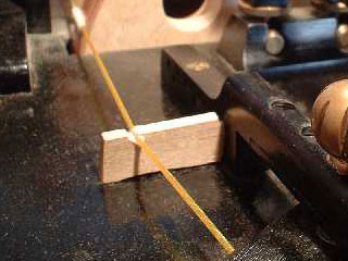 Buzzing bridge from a bass tekerő (Hungarian hurdy-gurdy)